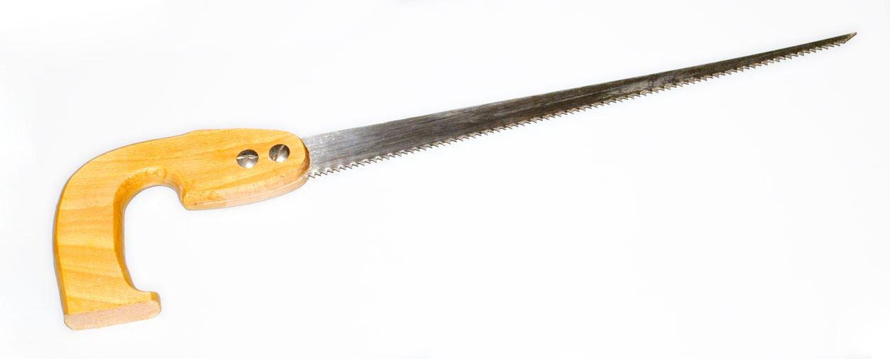 Photo of a keyhole saw.